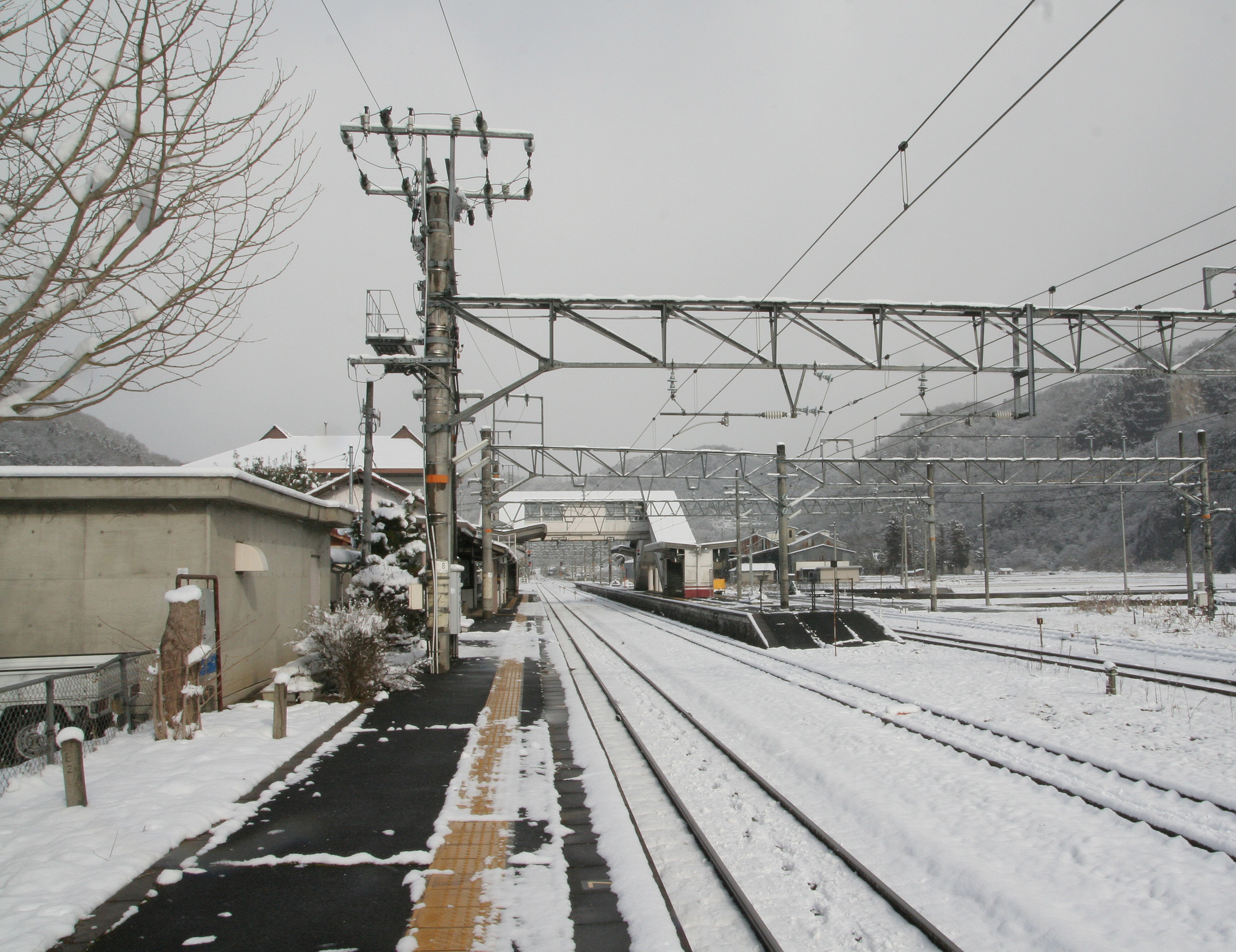 West Japan Railway Hakubi Line Ishiga Station enclosure